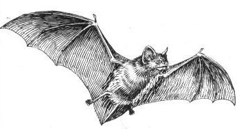 Line art drawing of a bat.